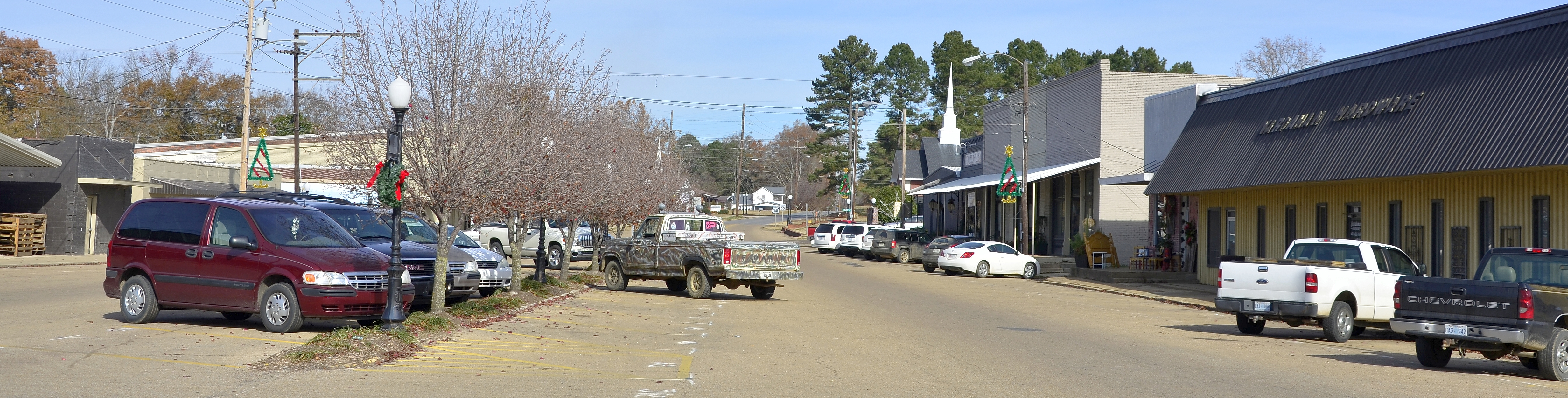 Main Street in Vardaman, Mississippi.